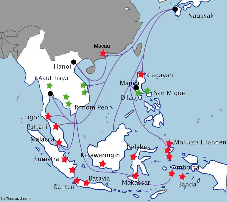 Map of Japanese trade and the establishment of "Japantowns" in Southeast Asia (16th-early 17th century). Made by myself and generously donated to the public domain. Legend: green: Japantowns red: Japanese enclaves black dot: cities of importance to the trade purple lines: main sea route of Japanese ships